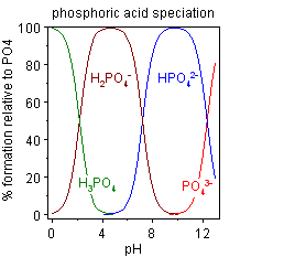 KHP simulated titration curve; phosphoric acid speciation, 3 pK values 2,16; 7,21; 12,32